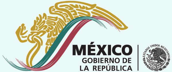 Seal of the office of the President of Mexico under Vicente Fox